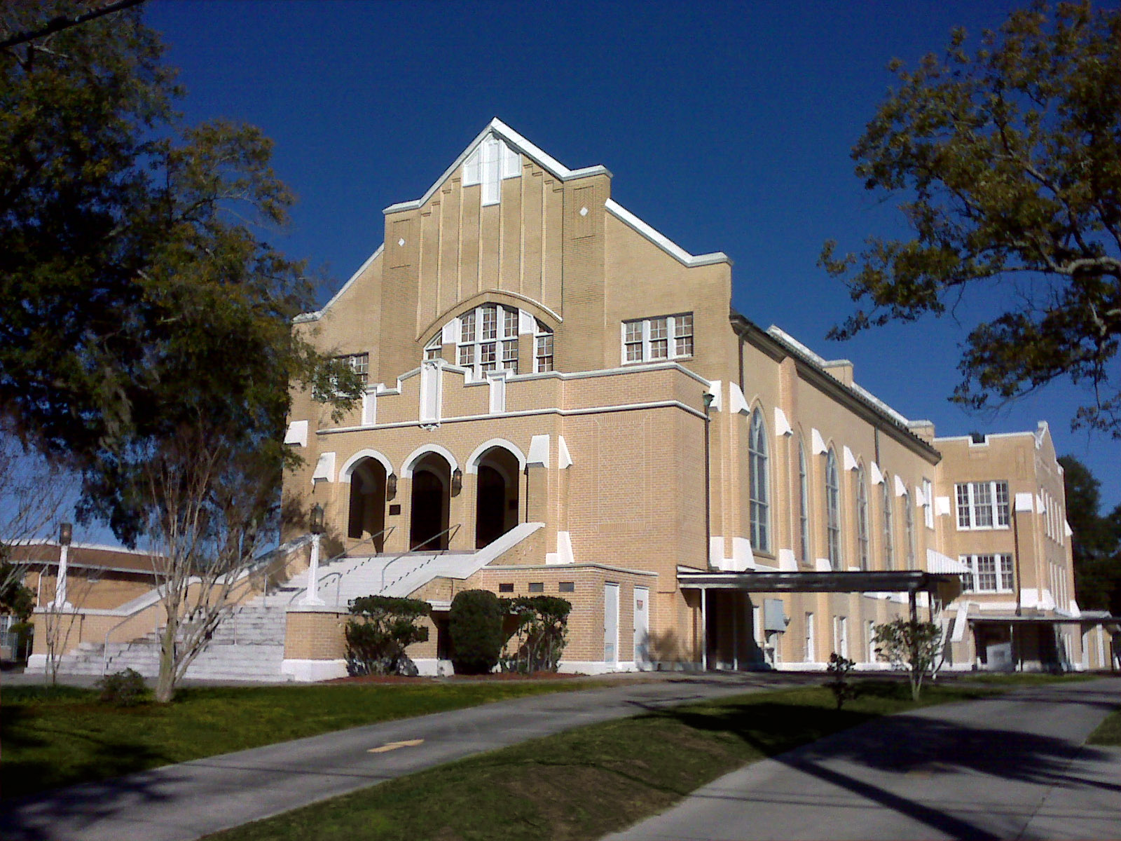 The yellow brick Gothic-Revival style Seminole Heights United Methodist Church was built in 1927 and is part of the Seminole Heights Residential District, a U.S. National Historic District in Tampa, Florida.